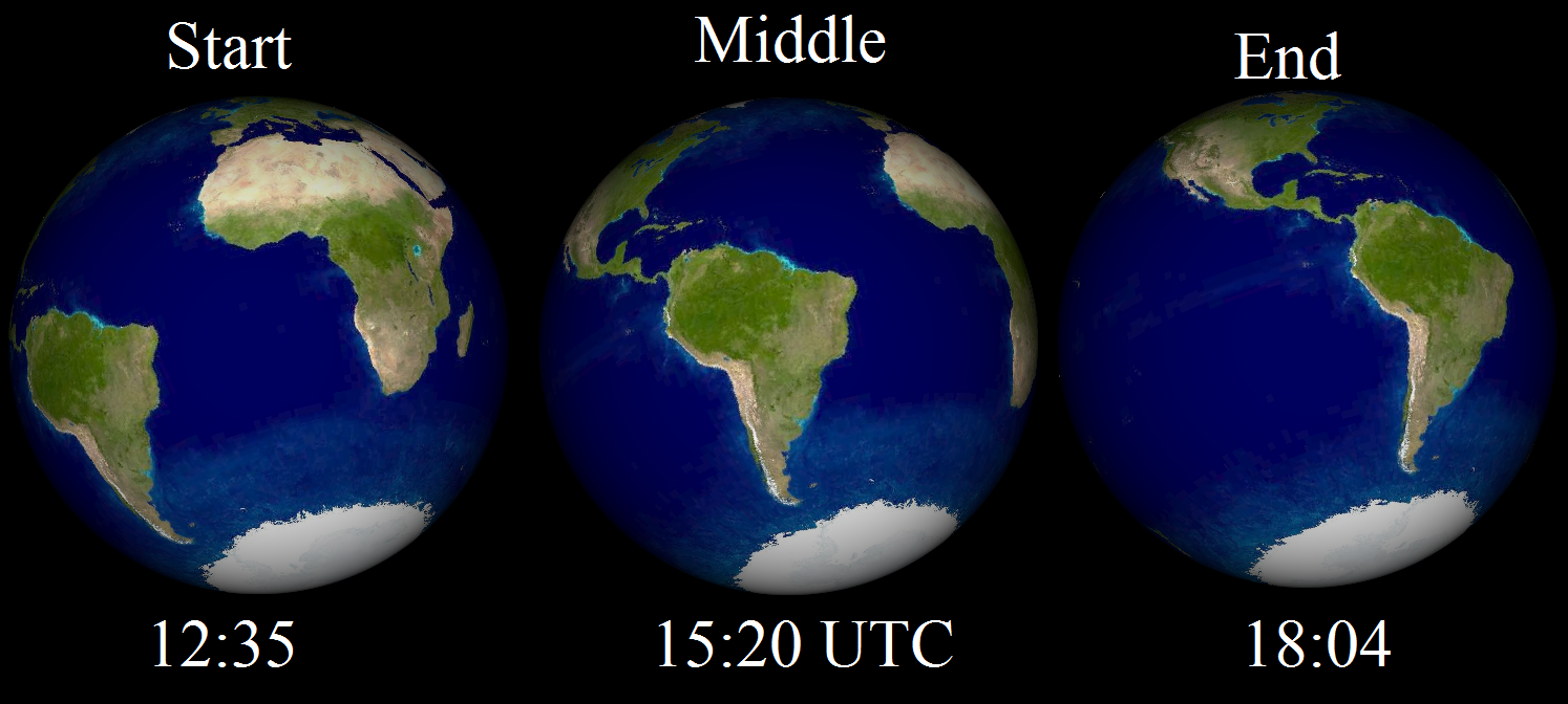 Transit of Mercury